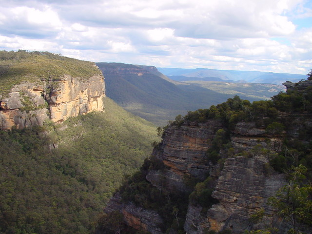 Photo from Near Nelly's Glen on the Six Foot Track, looking SW into Megalong Valley. The cliffs on the left are part of Narrow Neck Plateau (on the SW outskirts of Katoomba), those on the right, part of Radiata Plateau, Blue Mts, NSW, Australia.